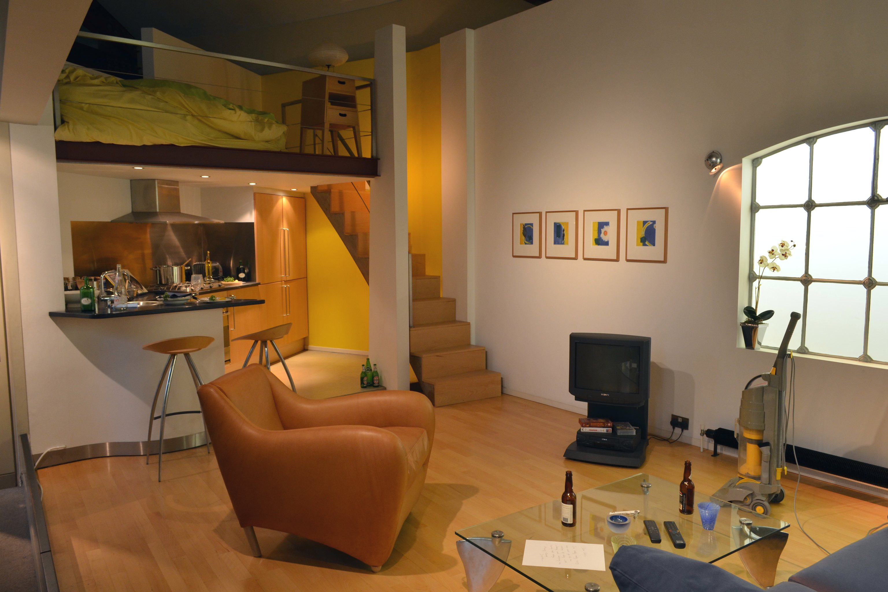 1998-style loft apartment at the Geffrye Museum in July 2016.